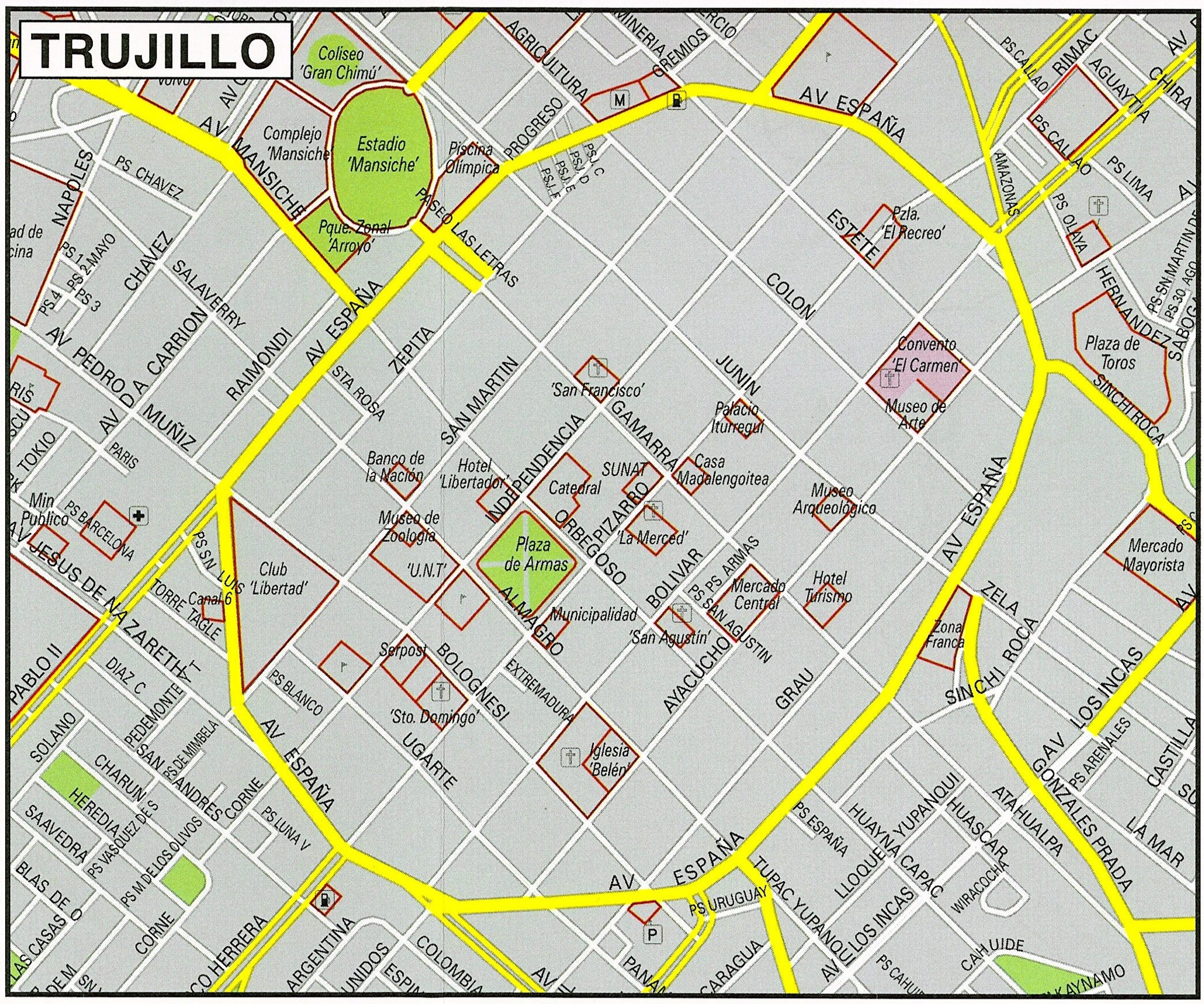 Trujillo, Peru